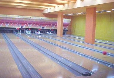 Bowling alley